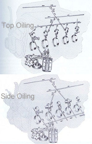 Ford FE oiling options